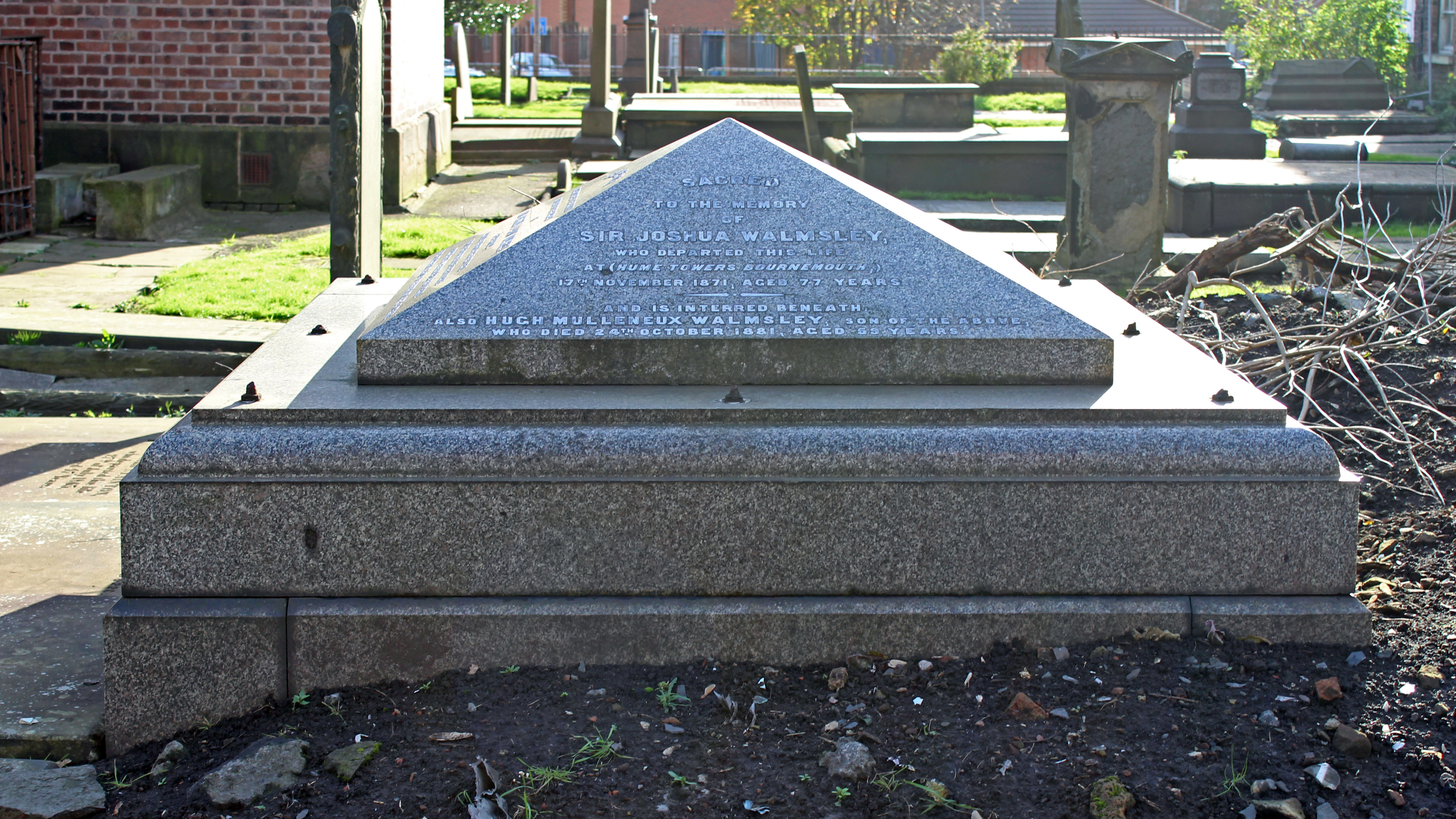 Right face describing Walmsley & one of this children